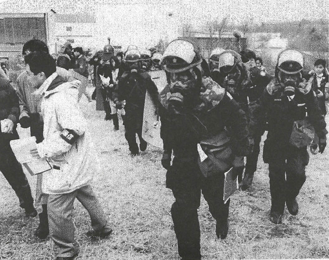 To prepare for the sarin gas attack, police officers wore gas masks provided by the SDF when Japanese police raided Aum Shinrikyo facilities. From 'Proceedings of the Seminar on Responding to the Consequences of Chemical and Biological Terrorism'